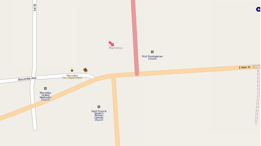 The area of the First Presbyterian Church of Marcellus from OpenStreetMap, an open-source mapping project.